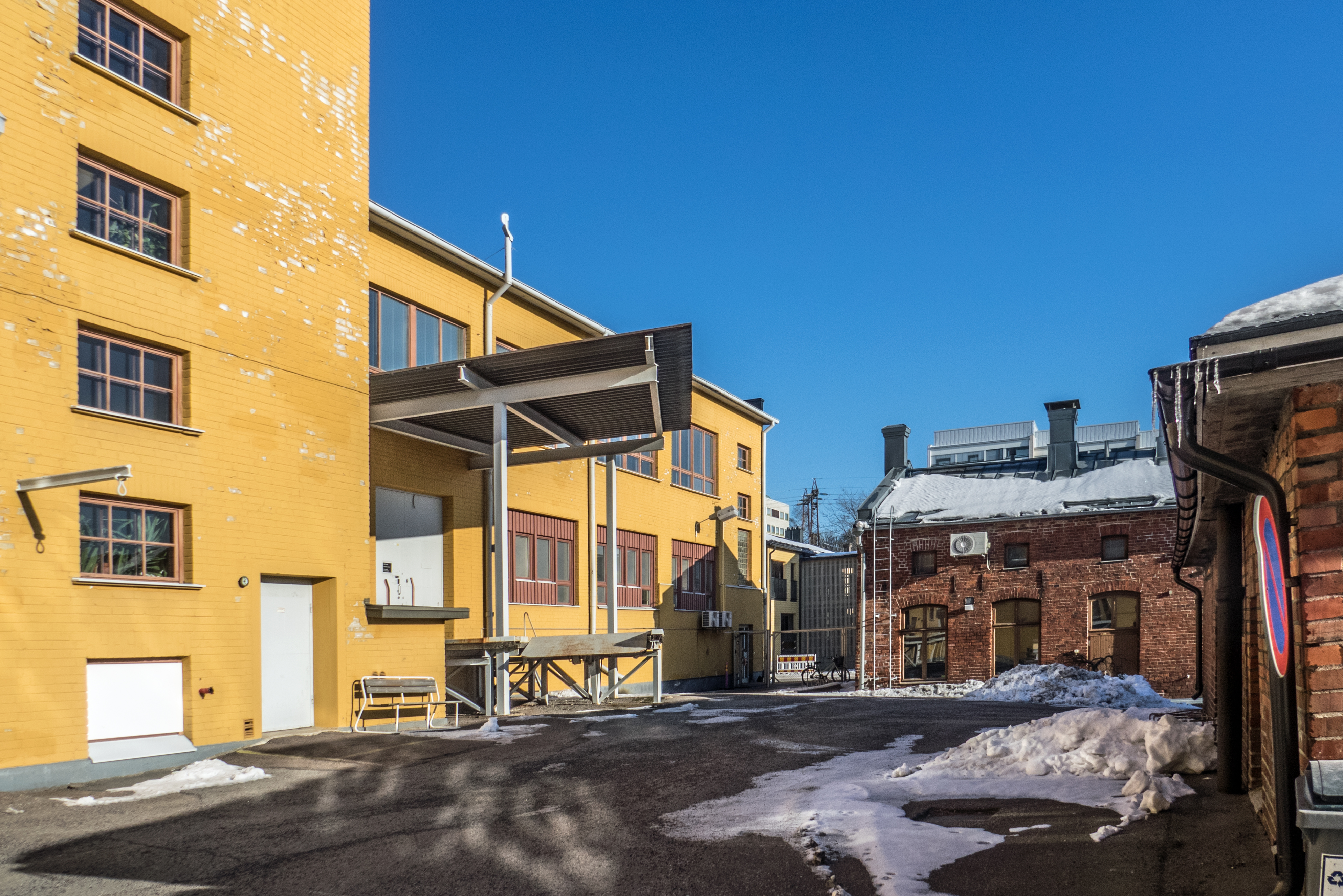 Turku Museum Centre administration, storage facilities and workshops located on Kalastajankatu in IX district, in a former brush factory (Yhtyneet Harja- ja Sivellintehtaat)